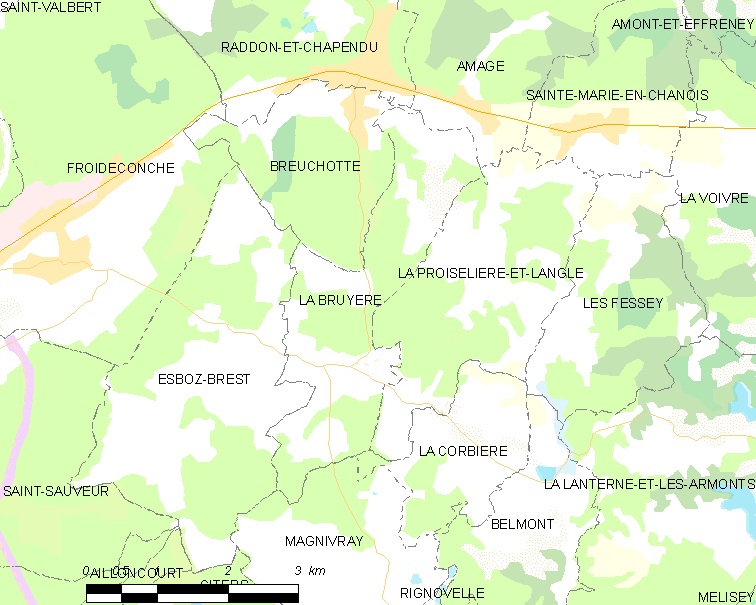 Map of French municipality